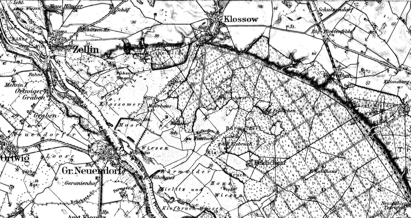 Map of Kłosów (Klossow) neighbourhood, year 1895